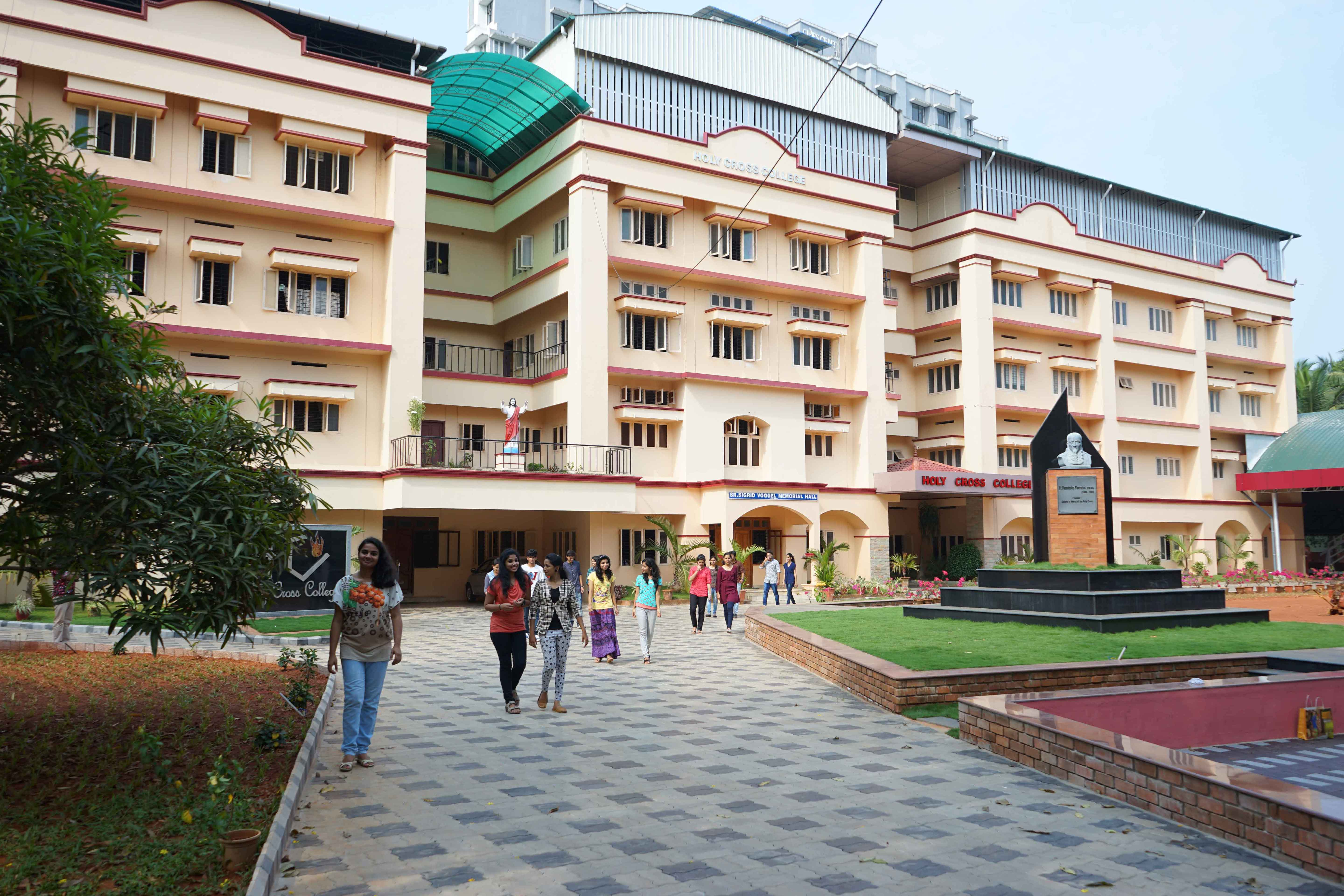 Holy cross institute of management and technology - college view from front